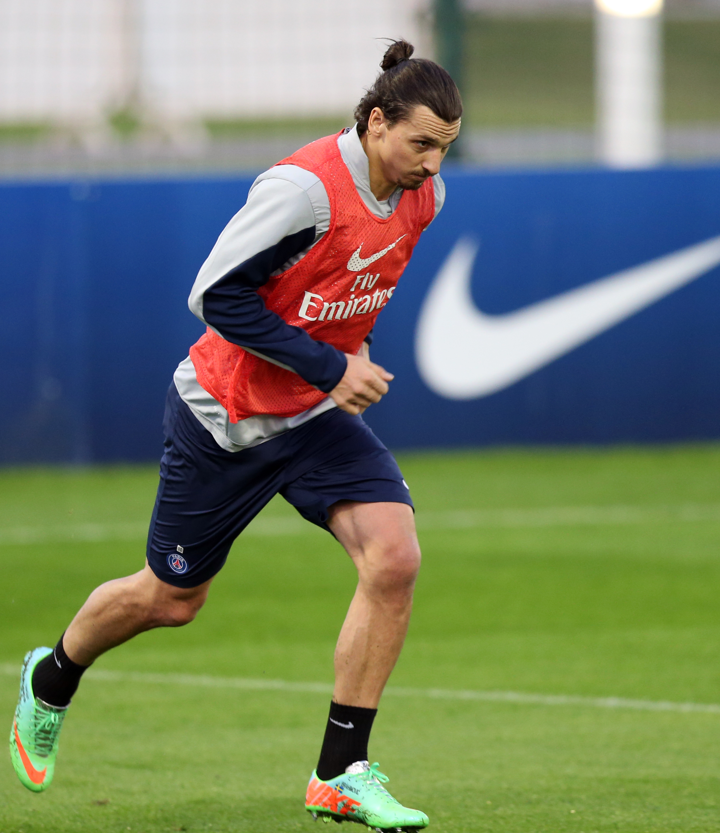 Paris Saint-Germain's Zlatan Ibrahimovic runs during a training camp in Doha. Pic by Vinod Divakaran